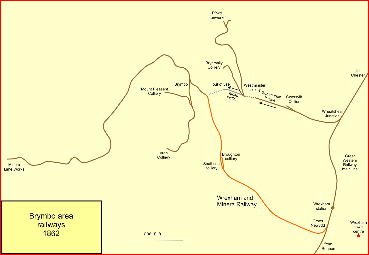 System map of the Railway lines around Brymbo, Wales, in 1862